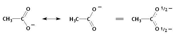 chemical structure of acetate ion, showing resonance